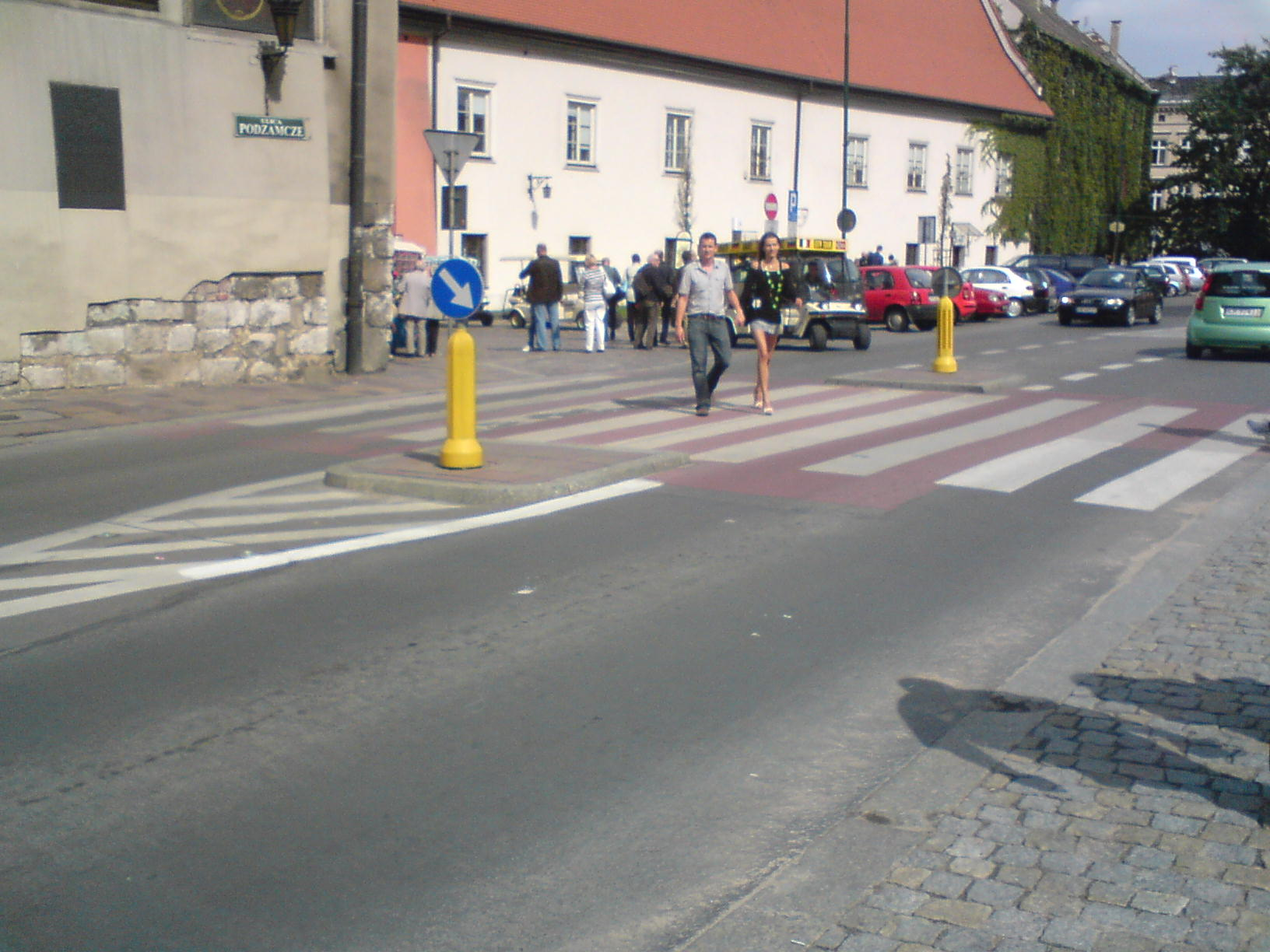 Refuge island near Wawel Castle in Krakow, Poland.